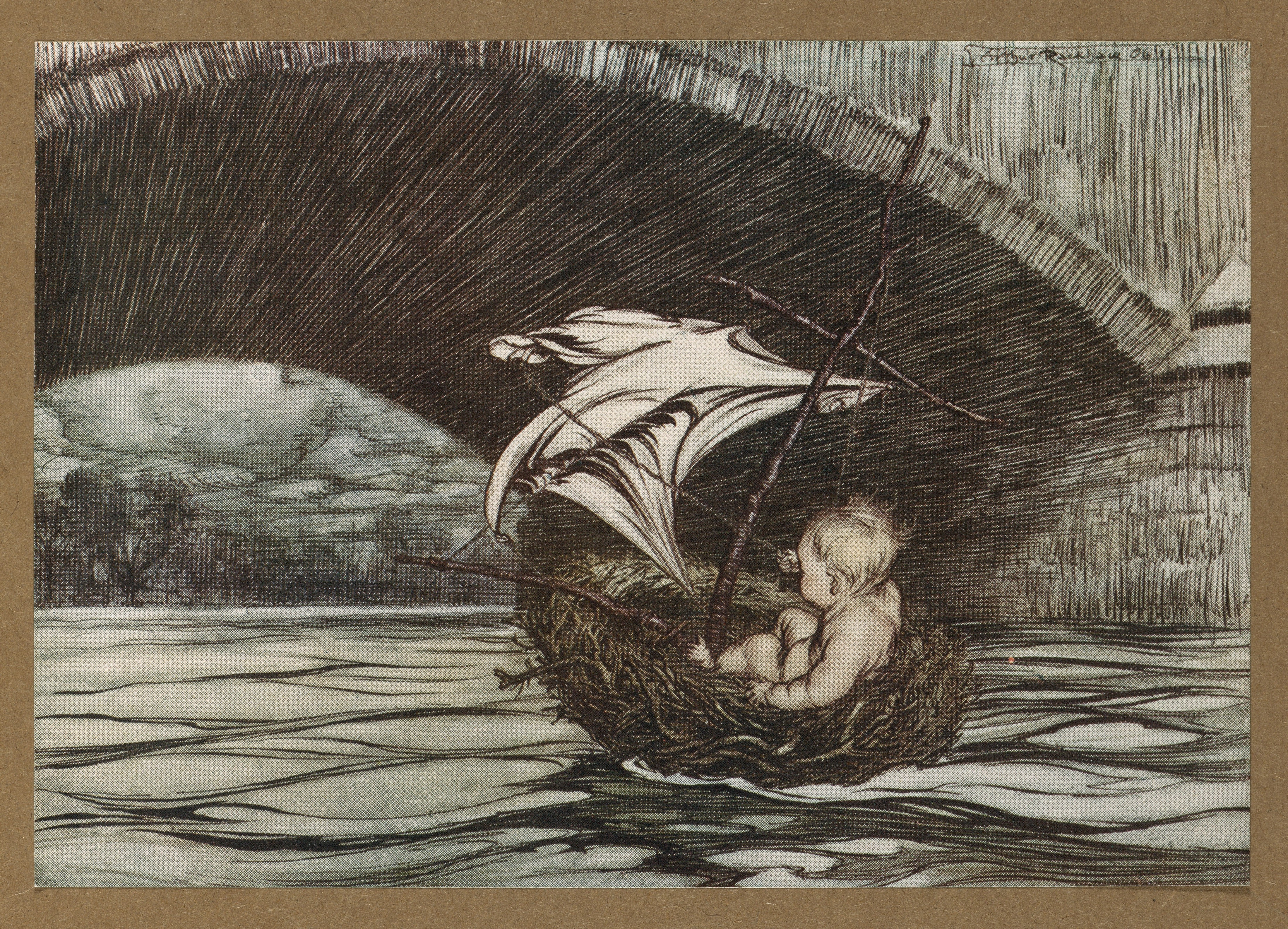 Illustration by Arthur Rackham for Peter Pan in Kensington Garden, labeled "He passed under the bridge." 1906. Typ 905R.06.195 (A), Houghton Library, Harvard University